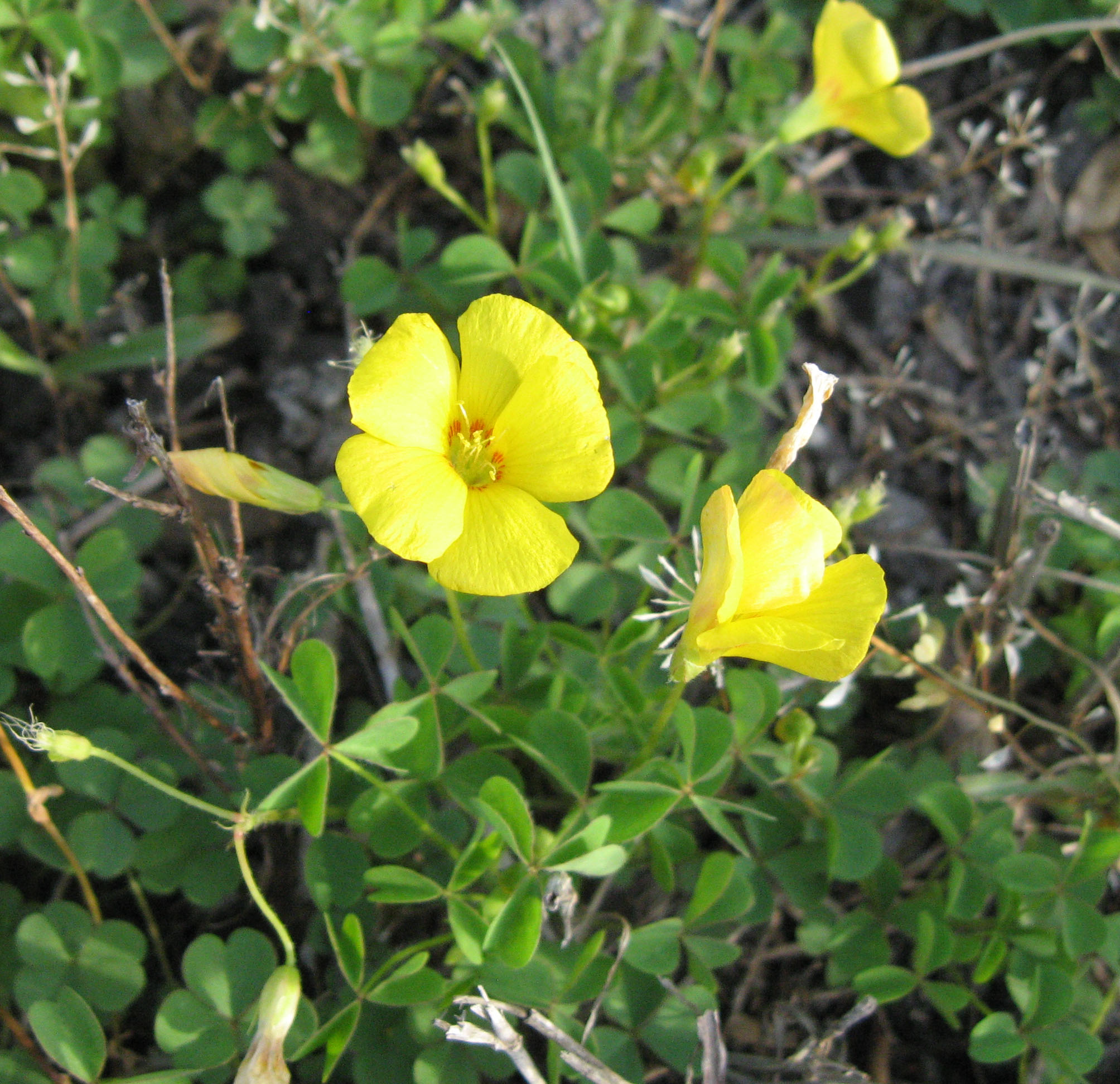 Oxalis priceae by a cedar glade in Rutherford County, Tennessee